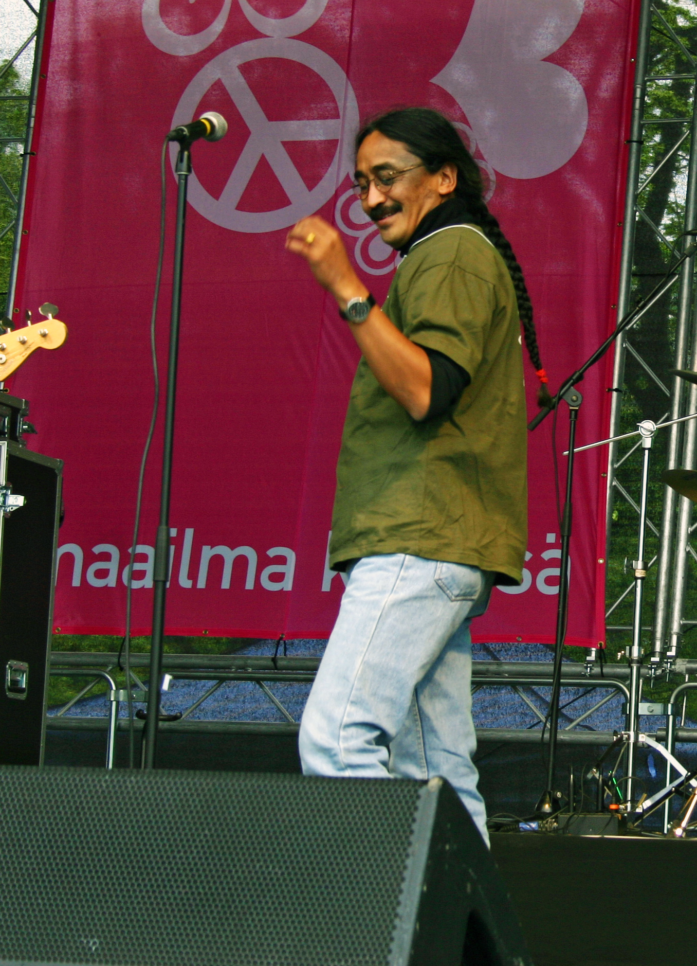 Amrit Gurung - solist of Nepathya-band (Nepal). Photo from Maailma Kylässä (World Village) -festival in Helsinki, Finland. 28.5.2006